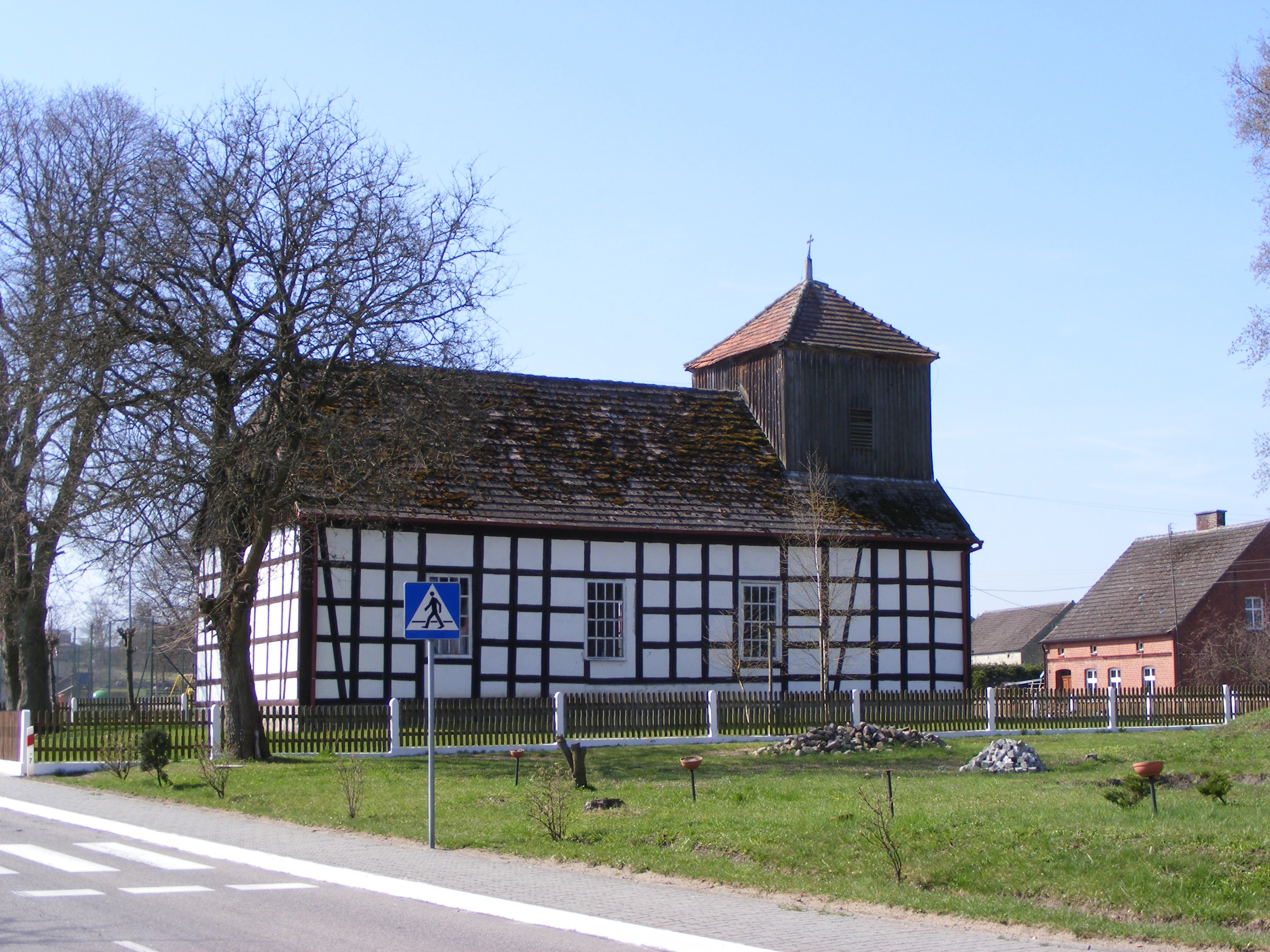 Church of St. Stanislaus in Poźrzadło Wielkie